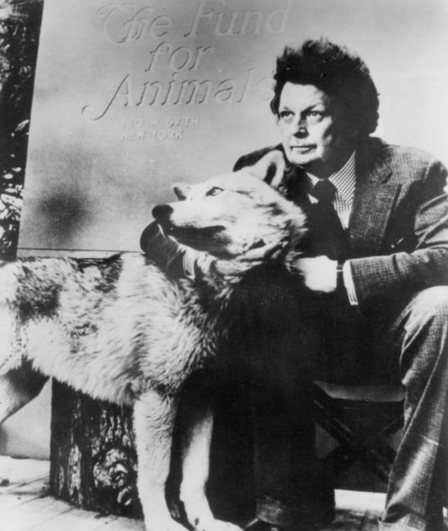 Photo of author and activist Cleveland Amory from a 1974 appearance on the PBS television program, Book Beat.